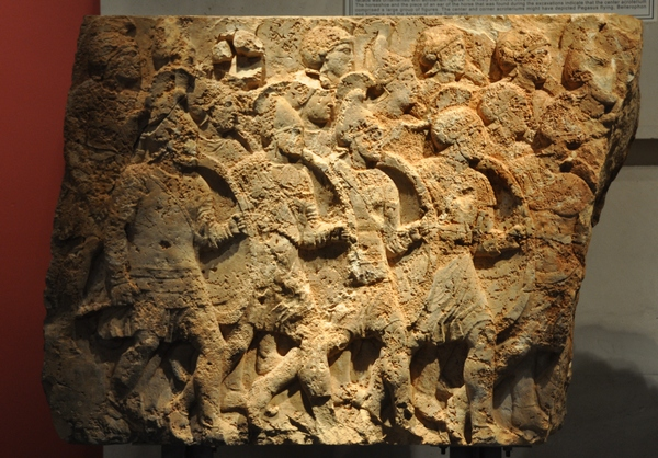 Limyra, Mausoleum of Pericles, phalanx